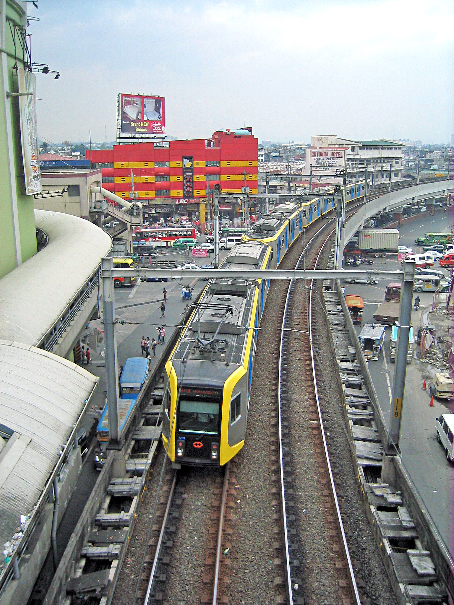 Train (LRT1) entering EDSA station (southern end) close to Taft Station of MRT3 in Manila/Philippines